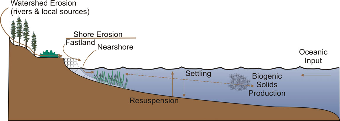 Sources of total suspended solids (TSS) in the Chesapeake Bay, including the two components of shoreline erosions, fastland and nearshore erosion.